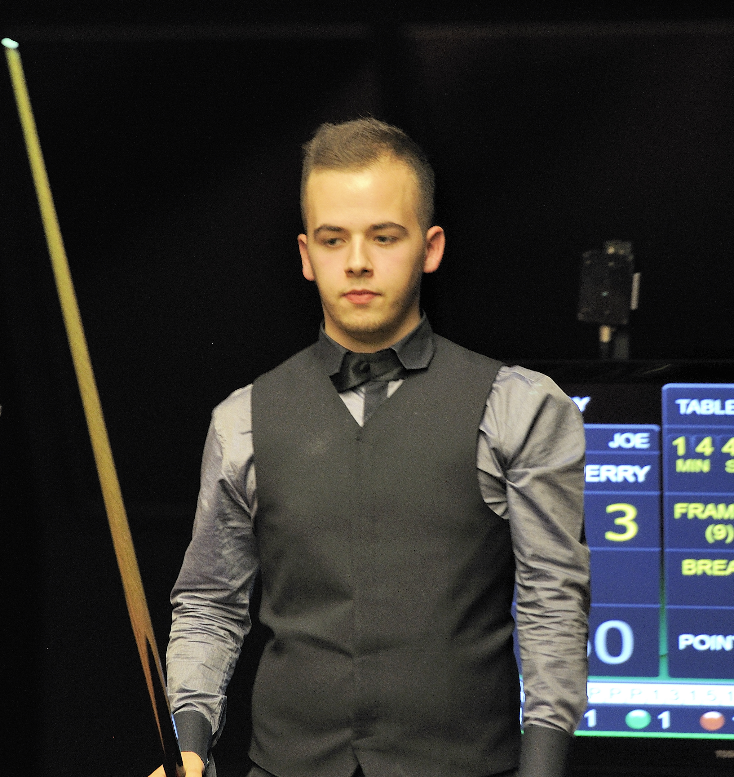 Picture taken in Berlin during the Snooker German Masters in 2014. Luca Brecel.